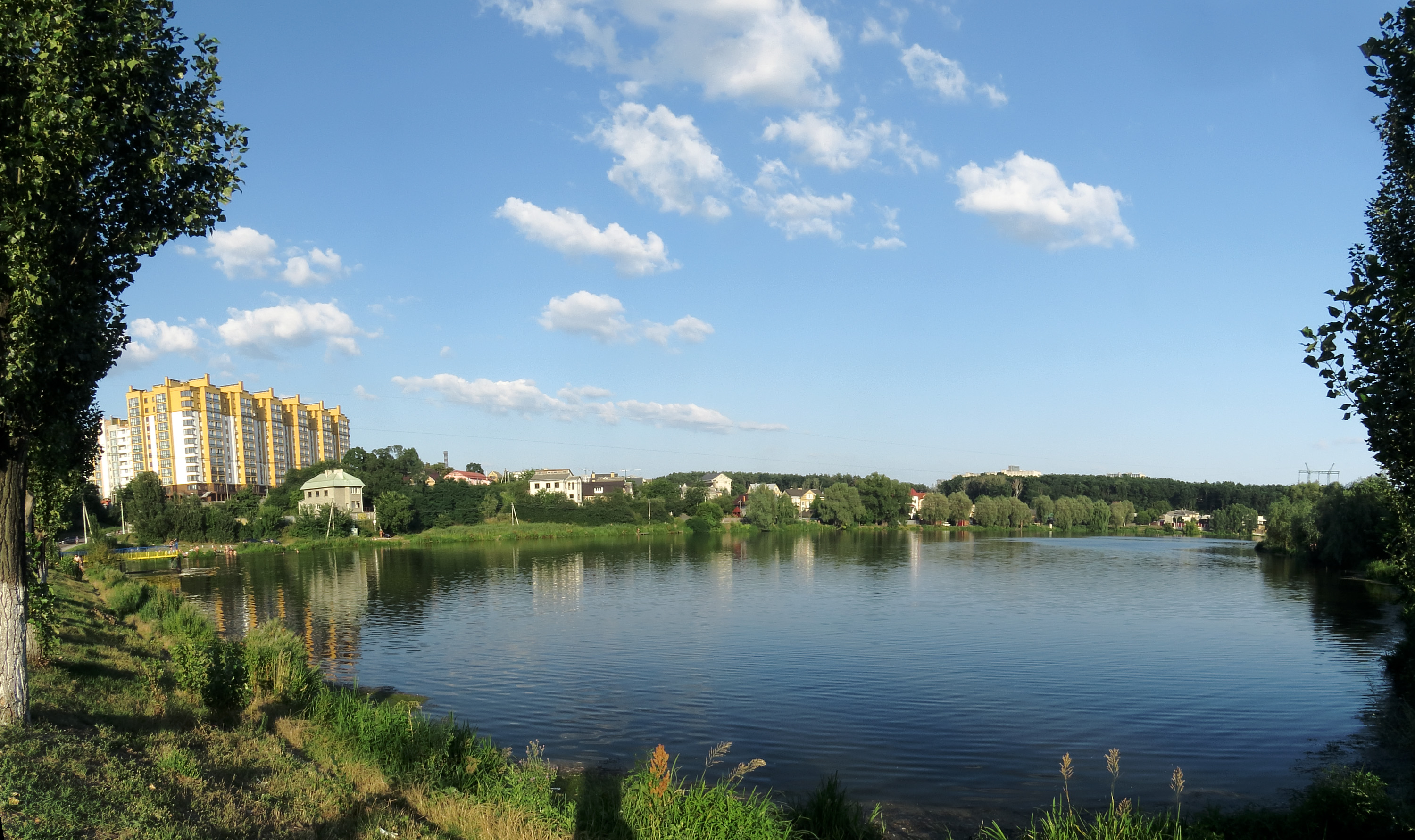 Pond in Petropavlivska Borshchagivka village, Kiev-Sviatoshyn raion, Kiev oblast, Ukraine